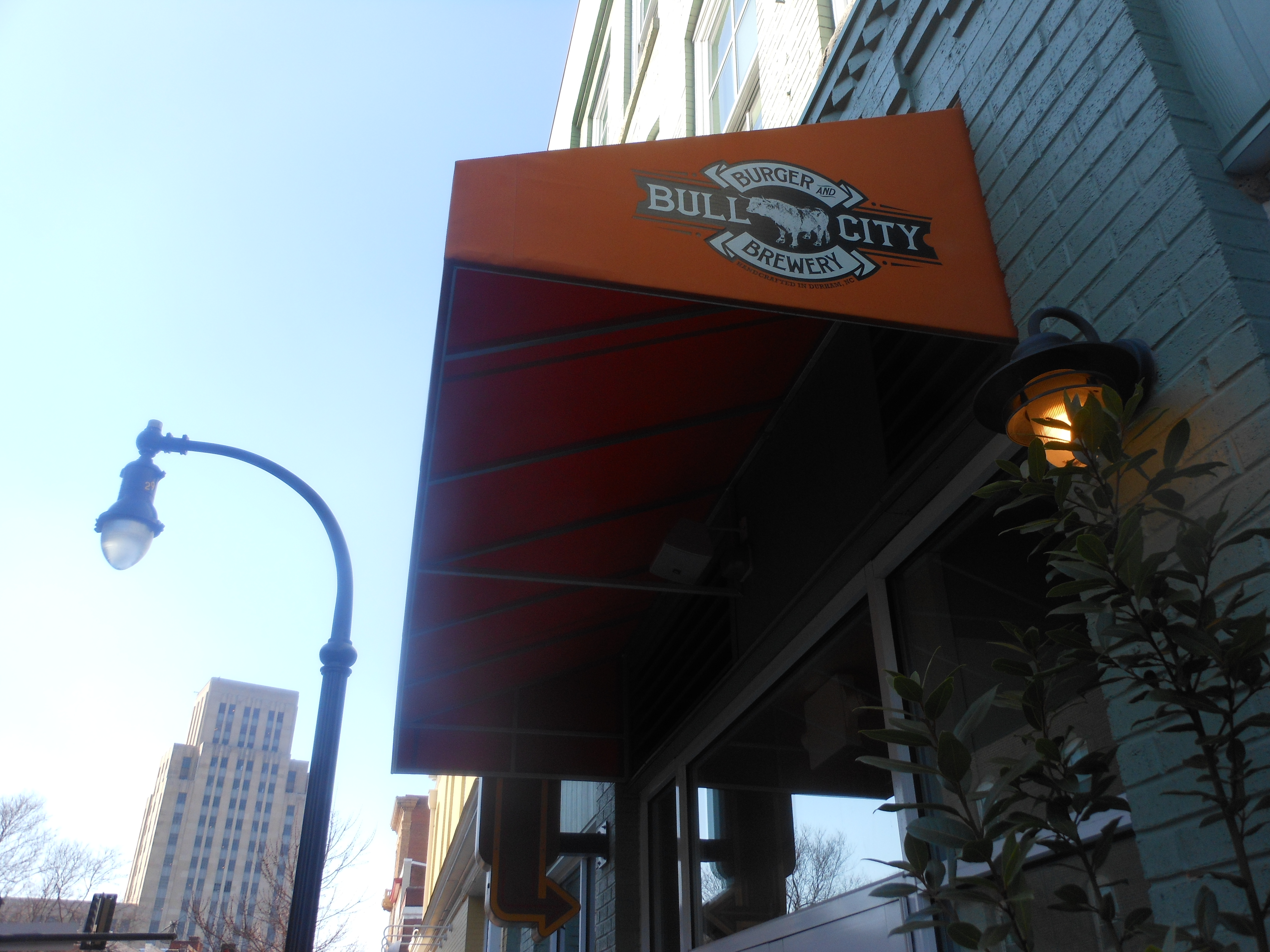 A bar and restaurant in Downtown Durham, NC with the Hill Building in the background